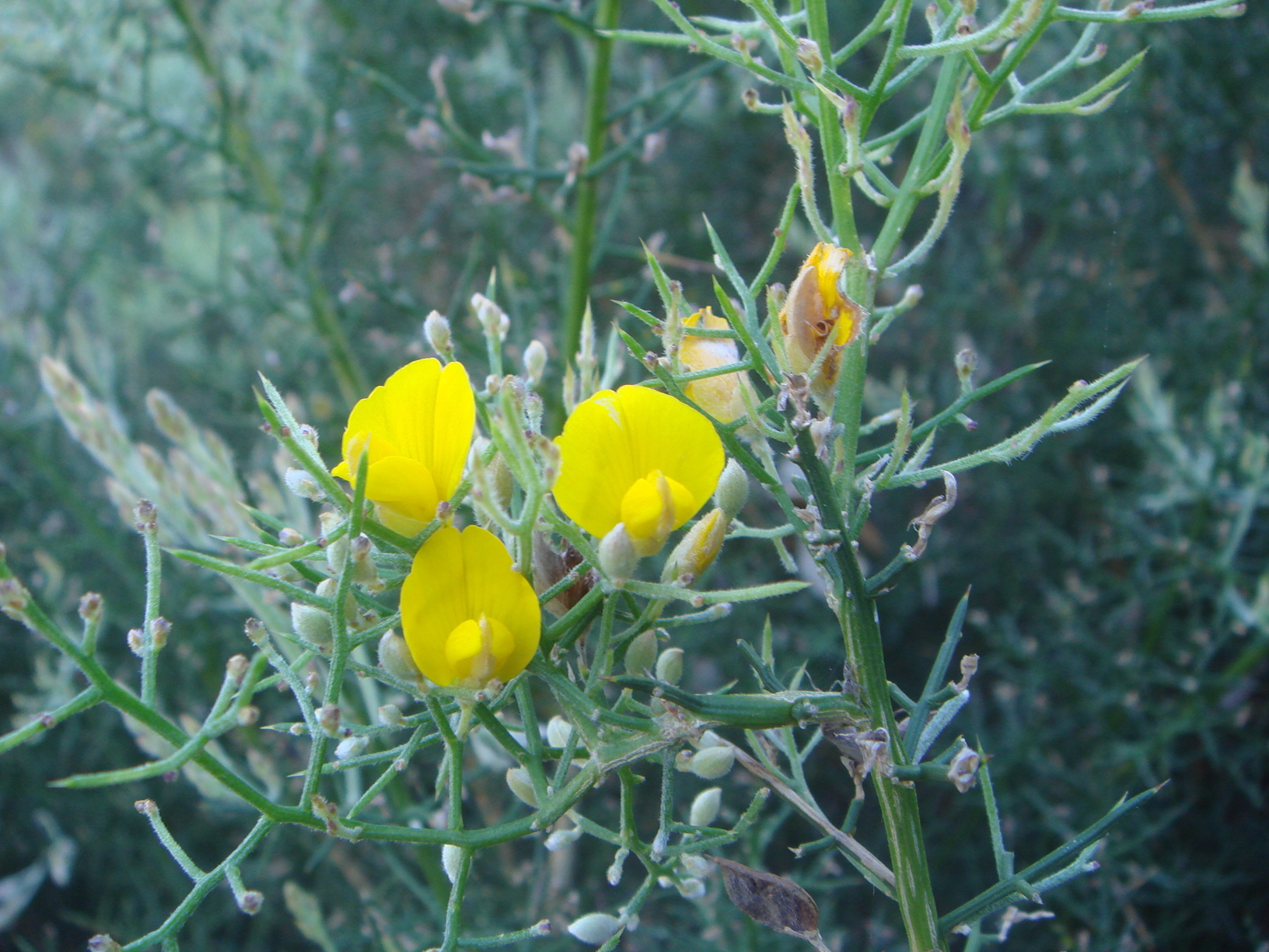 Flowers of Stauracanthos, Spain, Ceuta.